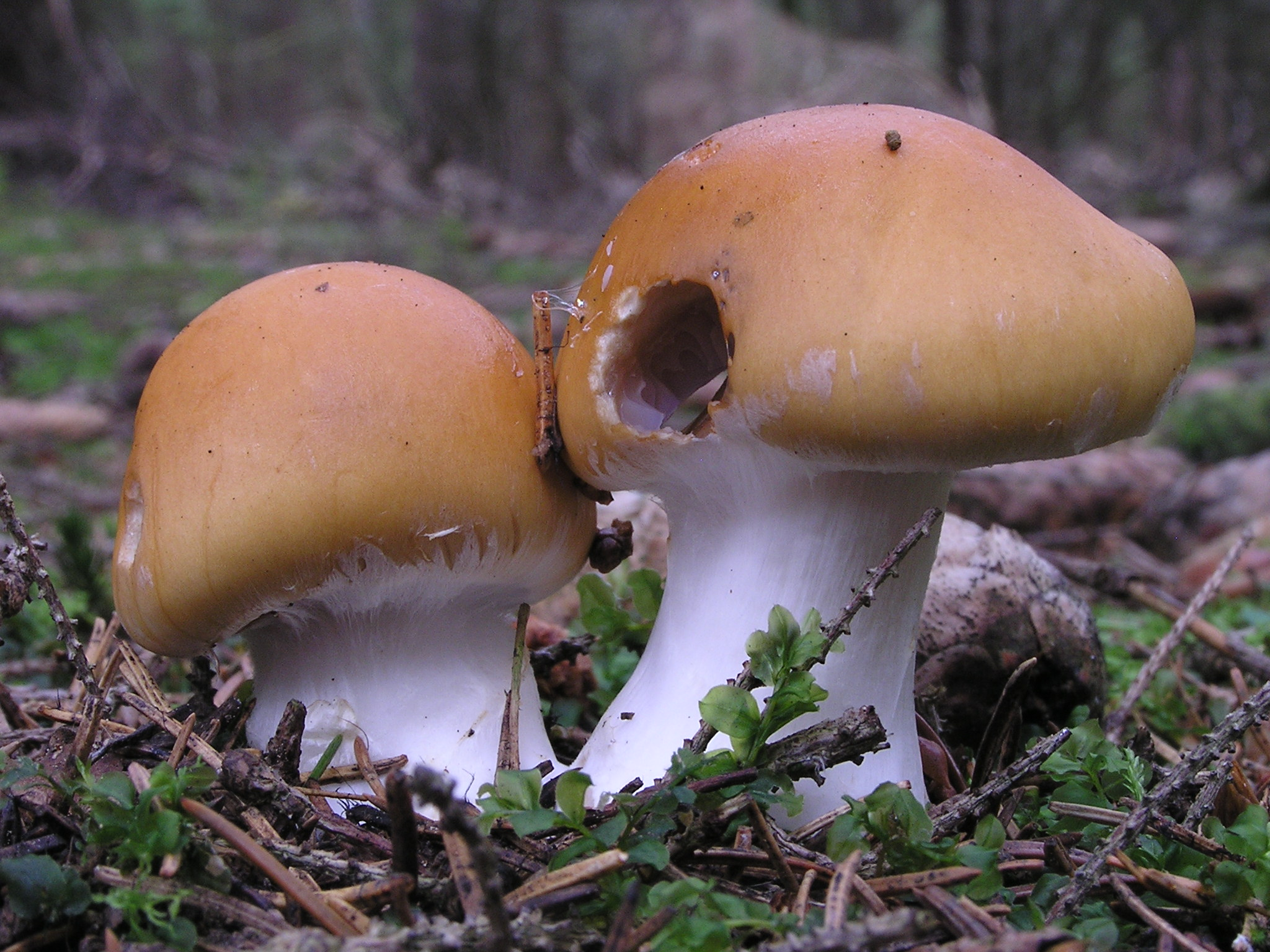 Fruit bodies of the fungus Cortinarius varius (Schaeff.) Fr. Specimens photographed in Hohe Maas, Meinigen, Thueringen, Germany.